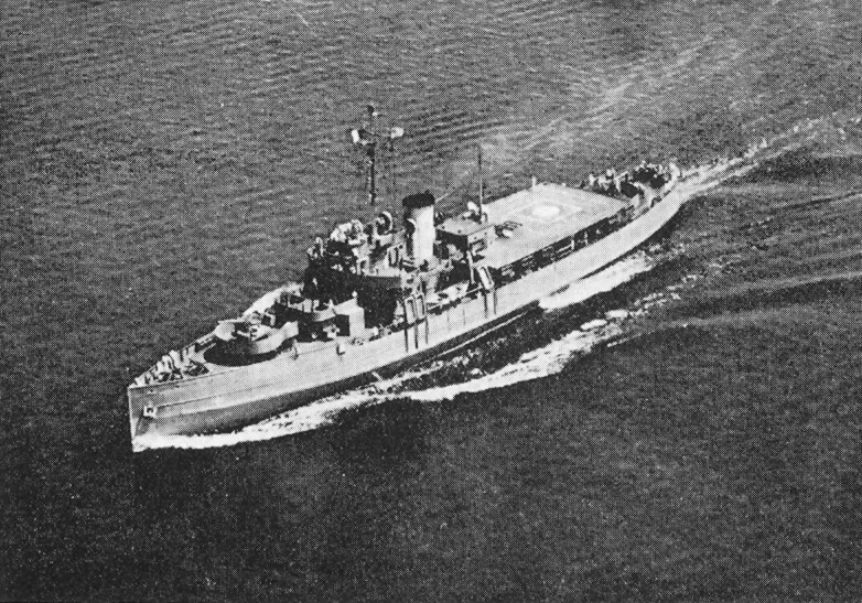 The U.S. Coast cutter USCGC Cobb (WPG-181) underway. The ship was converted for experimental use with the first Coast Cuard helicopter unit in 1944.